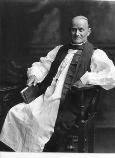 Photographic portrait of Most Rev. William Marlborough Carter (1850-1941)